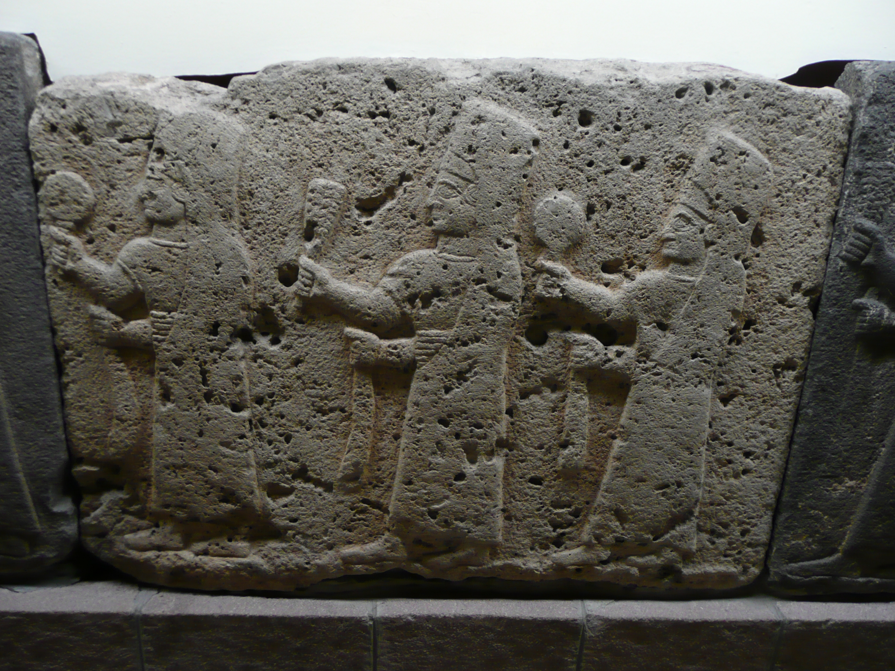 The Museum of Anatolian Civilizations is situated in Ankara, Turkey. It is one of the leading museums in the world for its unique collection of the ancient history of Anatolia.